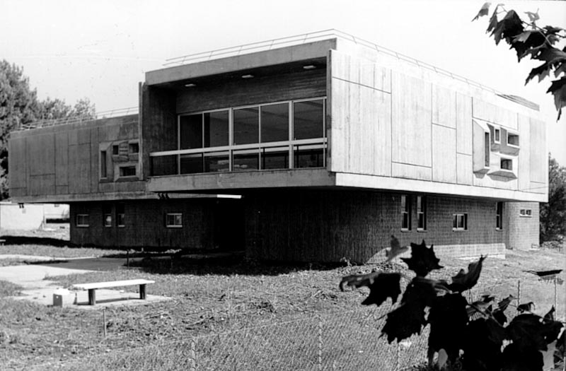 Architecture of Israel